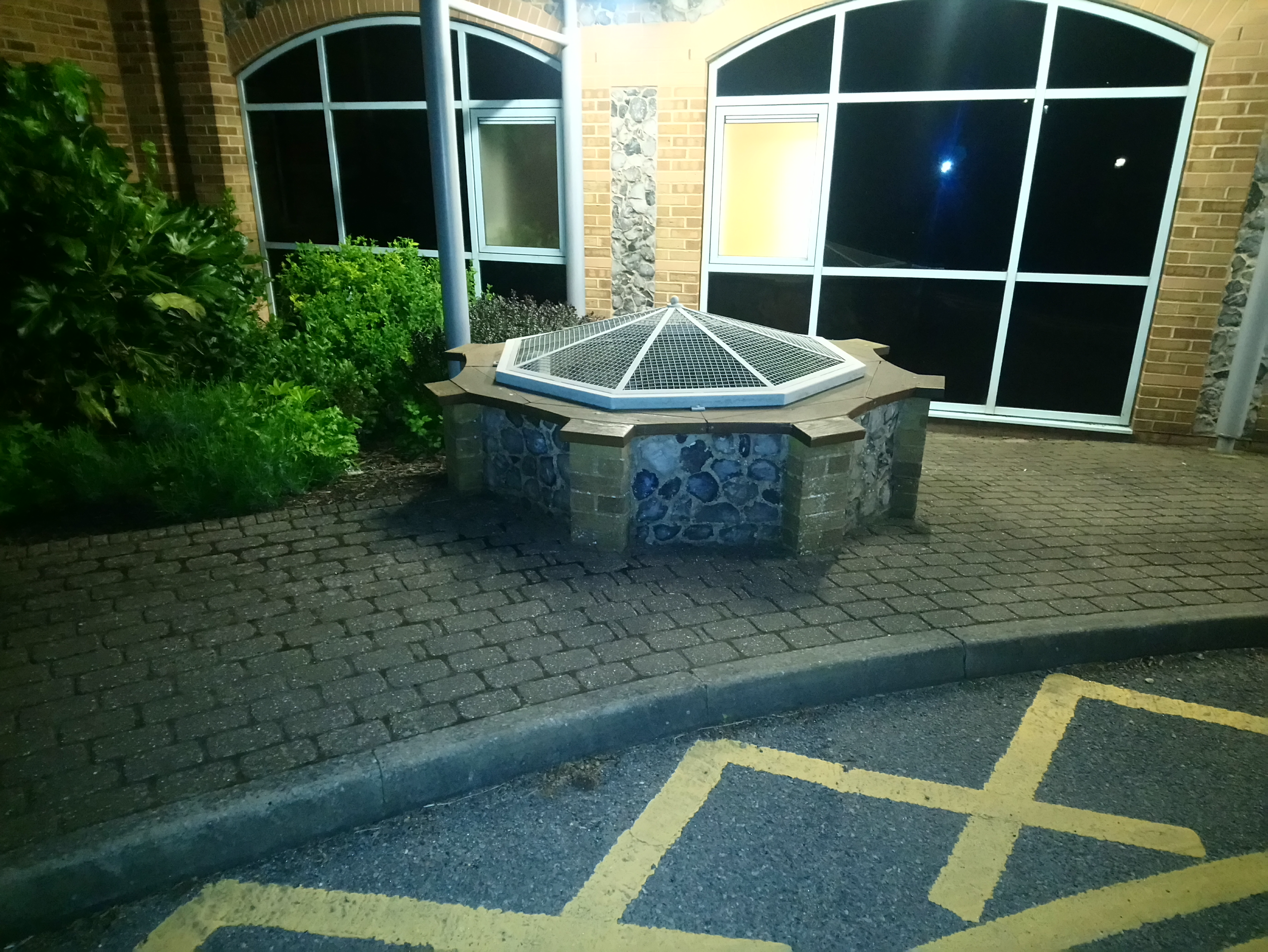 Woodingean water well, located near the entrance of Nuffield Hospital.